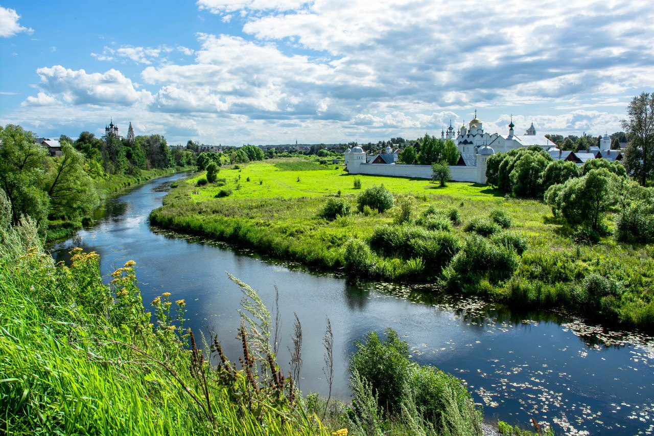 Convent of Intercession